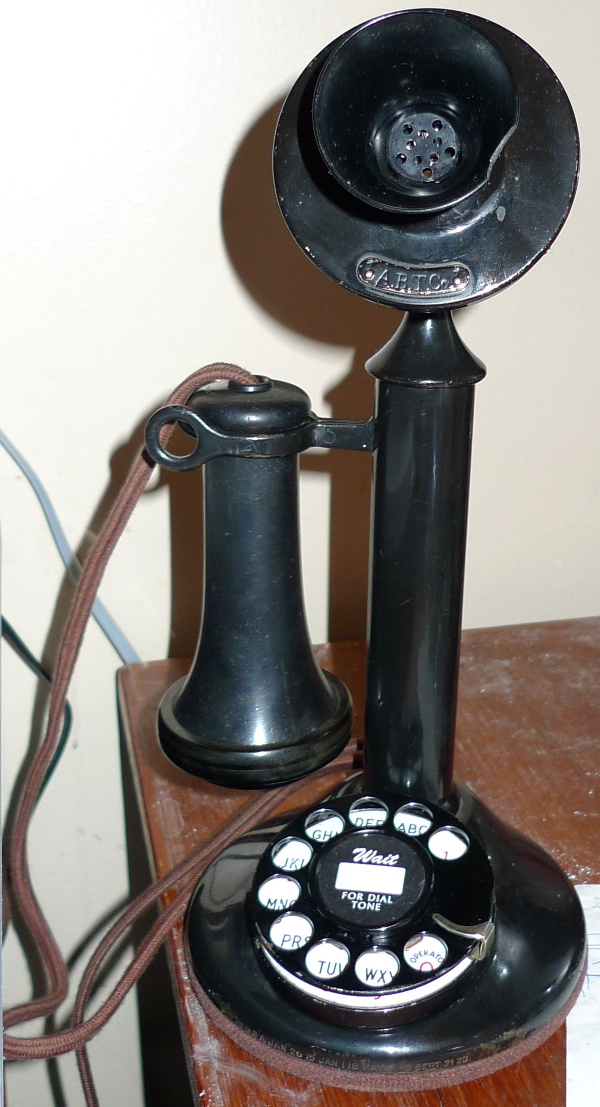 Picture of a Western Electric candlestick phone.